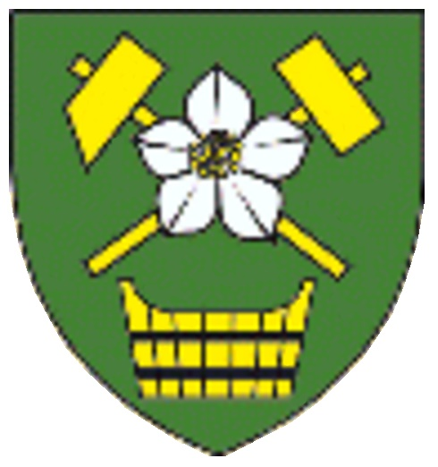 Coat of arms of Kleinzell, Lower Austria